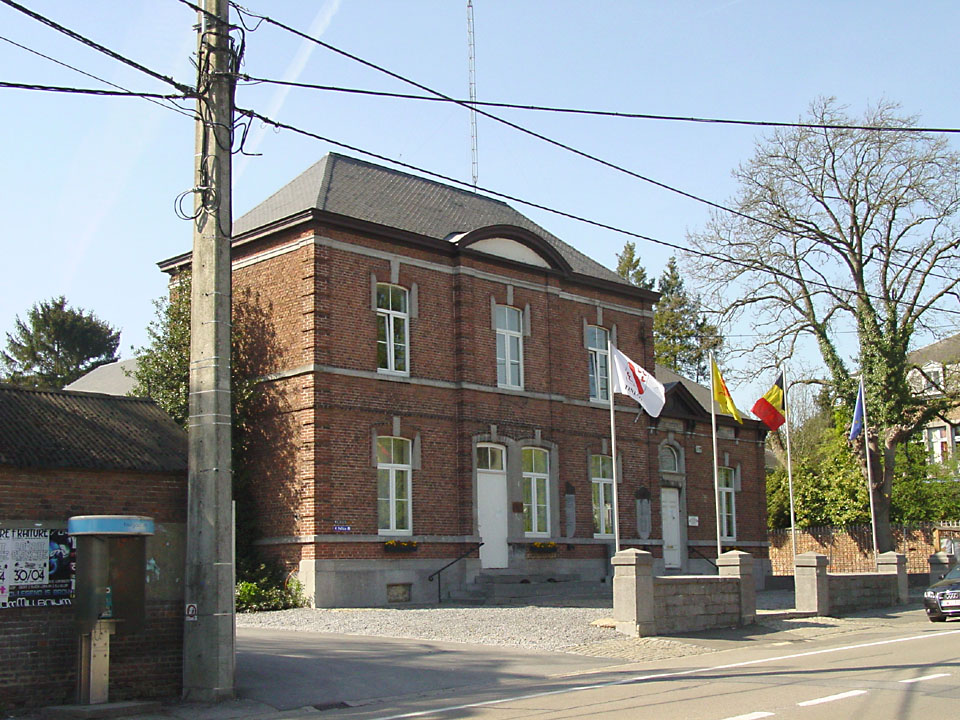 The Maison Communale of Tinlot, Belgium